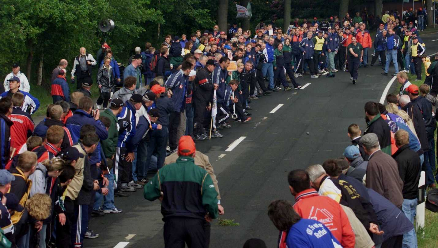 Street bowling at the Euro 2004 in Westerstede